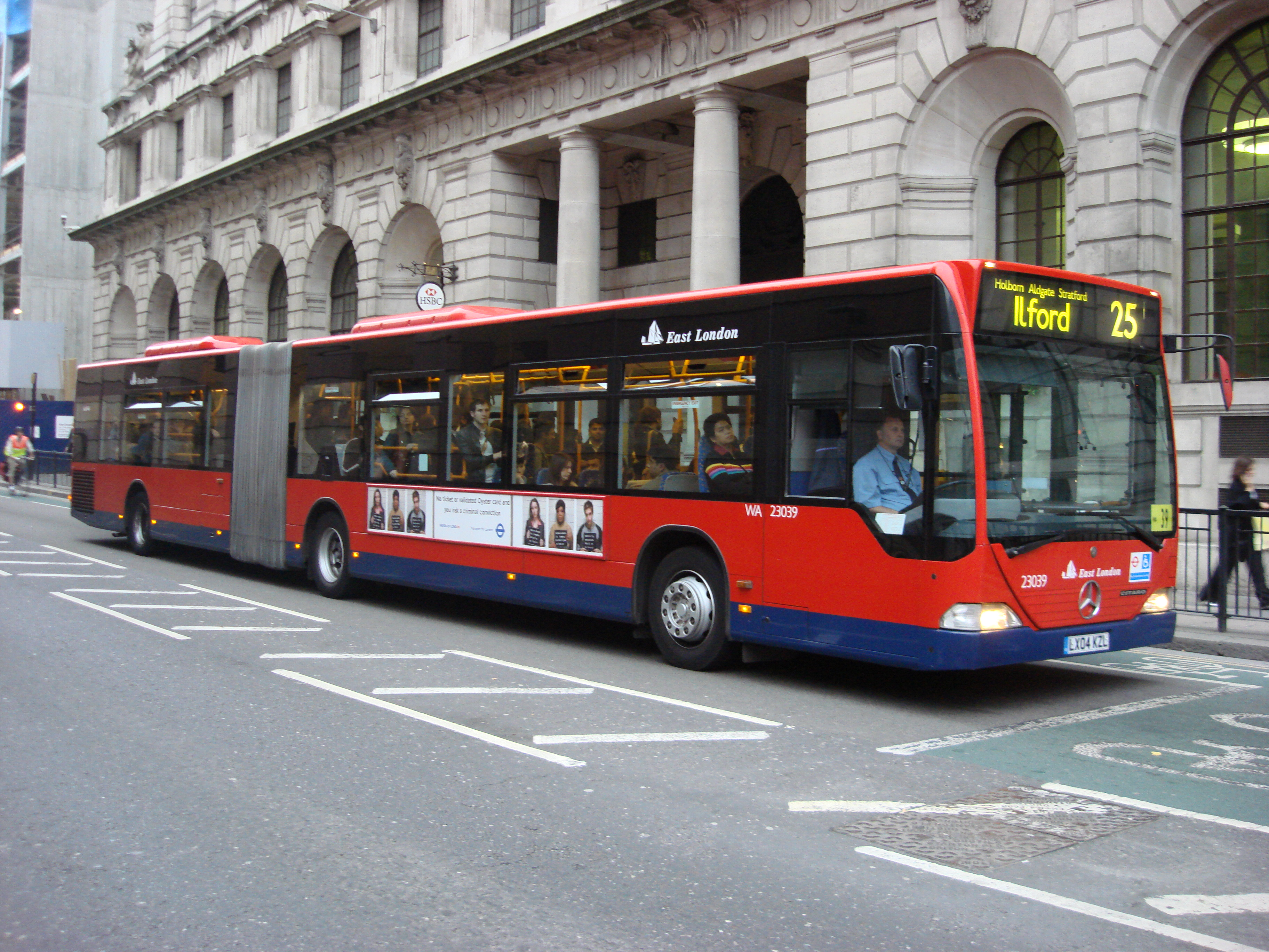 A bus on London Buses route 25. It is East London 23039 (LX04 KZL), a Mercedes-Benz Citaro G.